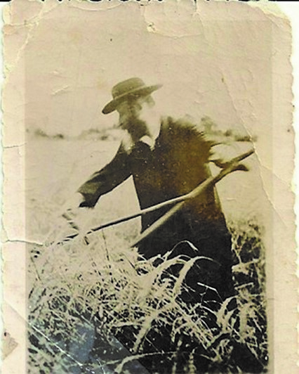 The “VaYaged Yaakov” cutting wheat for Pesach, he was the rabbi of the Etz Chaim community in Pápa, Hungary (wikipedia)